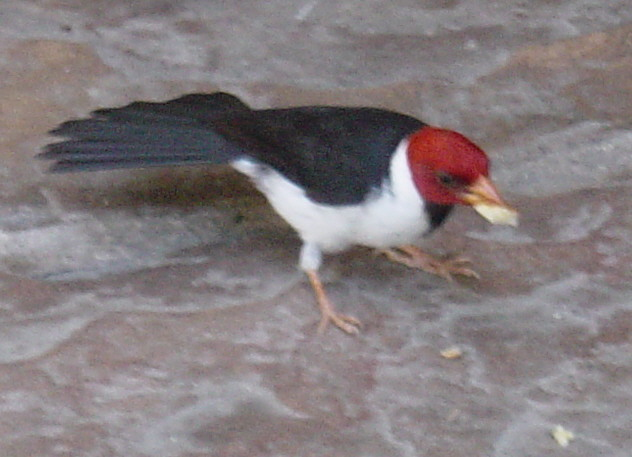 Yellow-billed Cardinal (Paroaria capitata) found on big island of Hawaii.